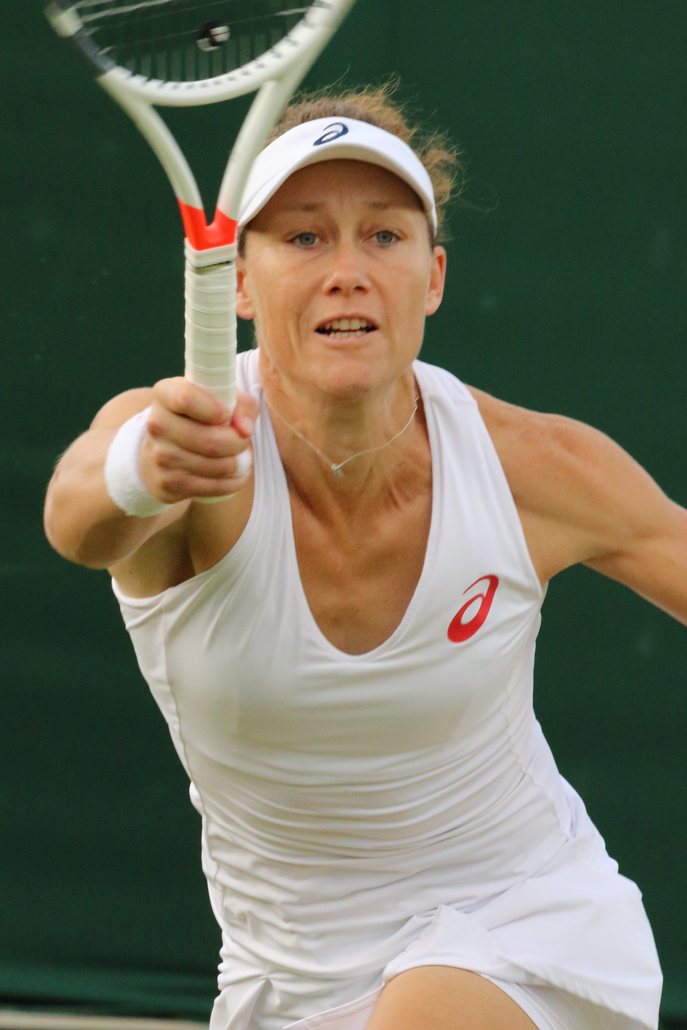 Stosur WM16 (18)